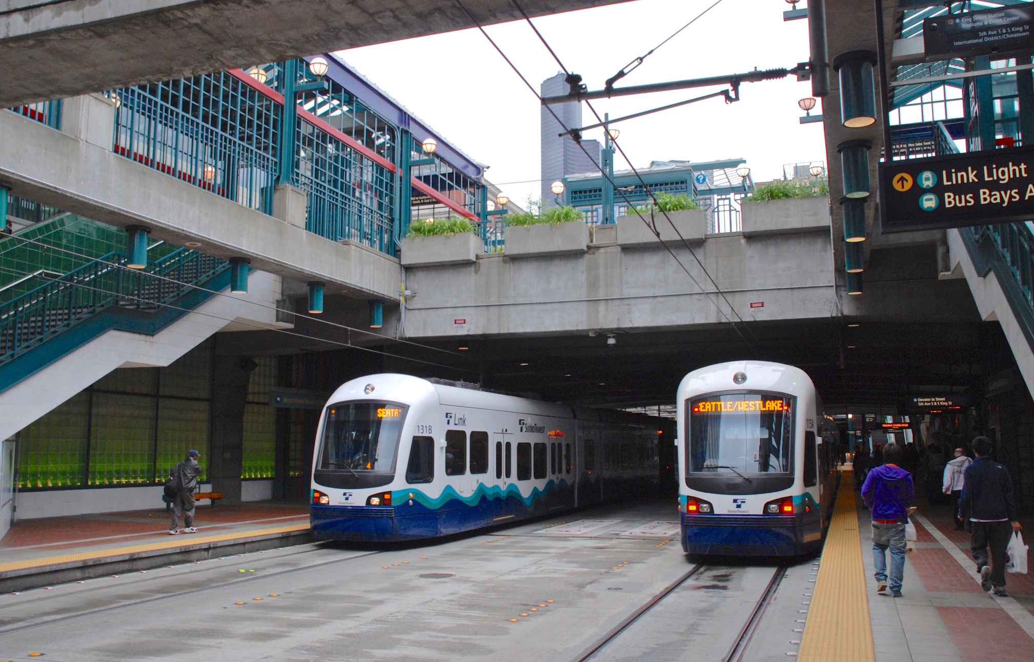 The Downtown Seattle Transit Tunnel's International District/Chinatown station with two Link light rail trains passing. This view is from the northbound platform, looking north. This DSTT station opened in 1990, for use exclusively by dual-mode buses (diesel/trolley) that operated as trolleybuses in the tunnel. It was modified in the late 2000s for use additionally by Sound Transit Link light rail, and Link service began in 2009.